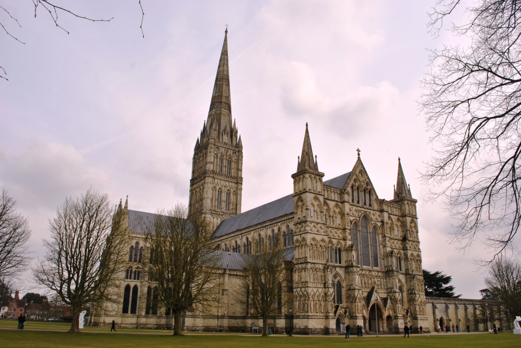 Cathedral Church of St Mary